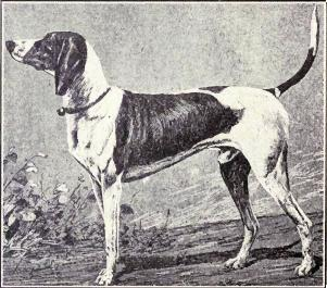 Swiss Hound from 1915